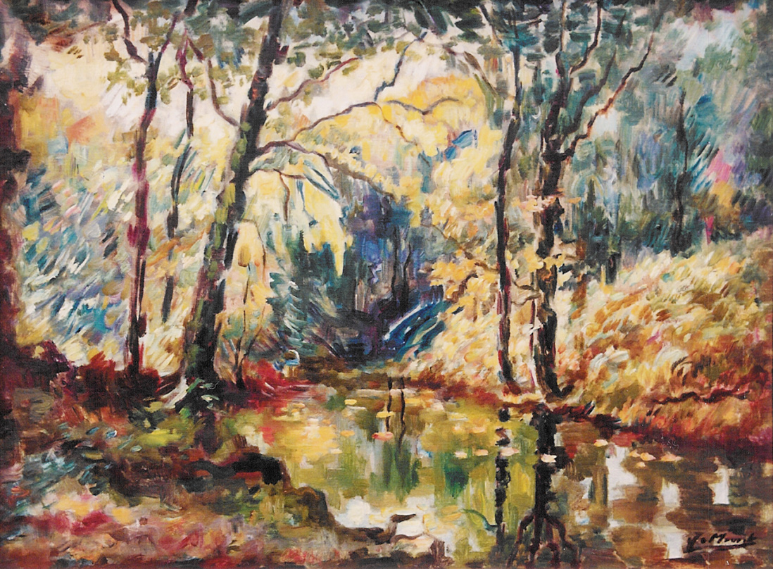 Painting 'Het groene water' (The green water) by Dutch painter nl: Jacques van Mourik